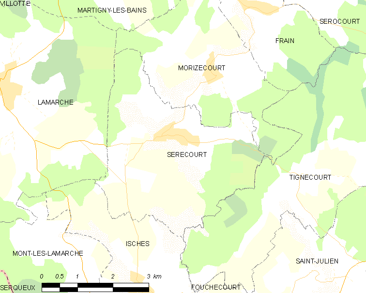 Map of French municipality Serécourt